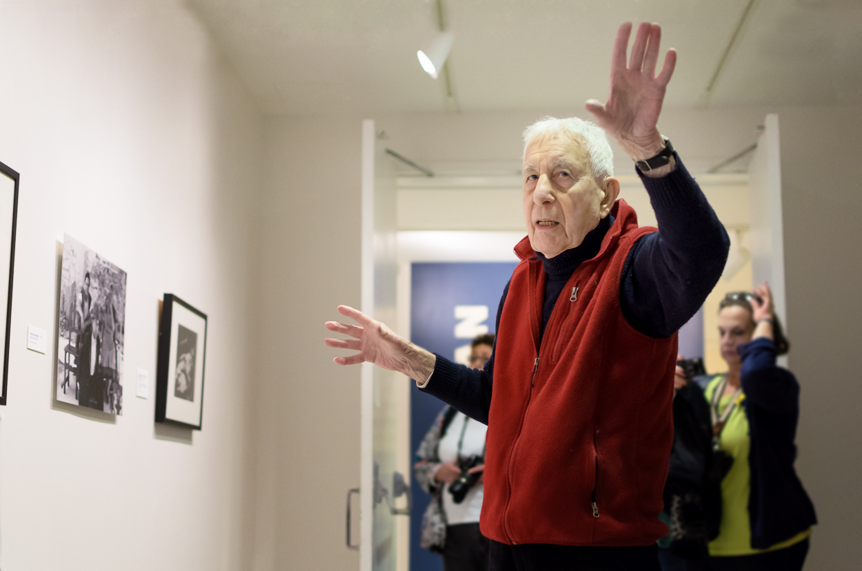 Jon Naar speak about his work at the New Jersey State Museum, Trenton NJ.